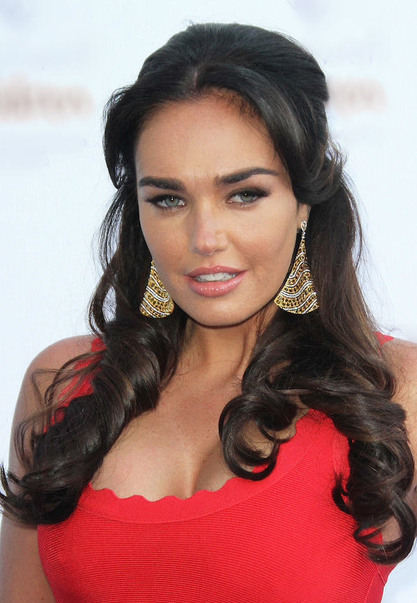 British model and television personality Tamara Ecclestone at the 2013 Butterfly Ball: A Sensory Experience at the Battersea Evolution in London, UK.